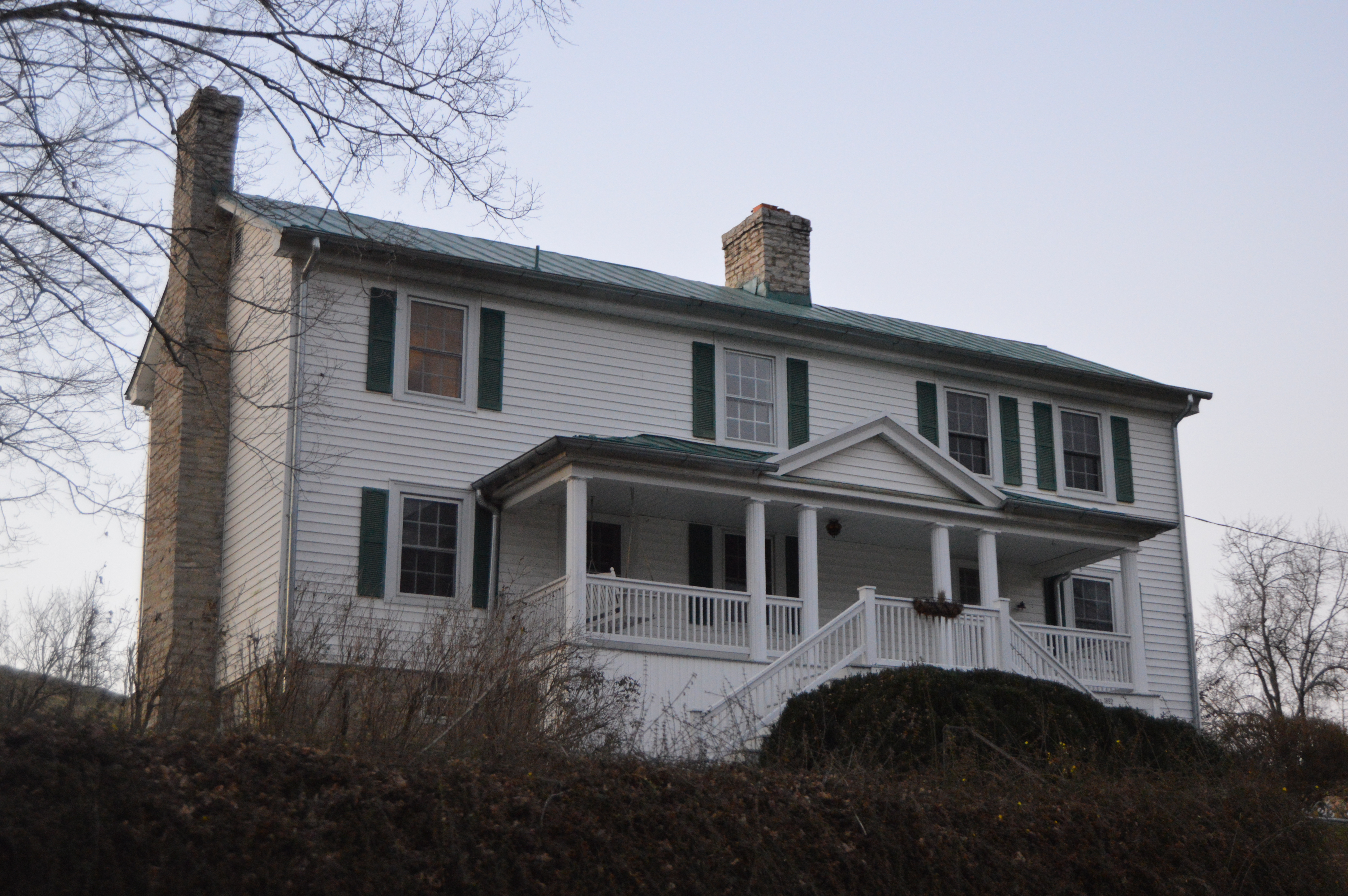 Roadside view of the Scott-Hutton Farmhouse, located at 1892 Turnpike Road west of Lexington in Rockbridge County, Virginia, United States. Together with the rest of the farmstead, it is listed on the National Register of Historic Places.